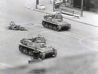 German tank (Hotchkiss H35) moving in downtown Paris on August 19 1944 during the battle for Paris. Screenshot from La Liberation de Paris, September 1st, 1944. there is no known copyright for this 1944 underground propaganda work but the producer is the Le Comite de Liberation du Cinema Francais which disbanded shortly after. original movie file cand be found as public domain material at